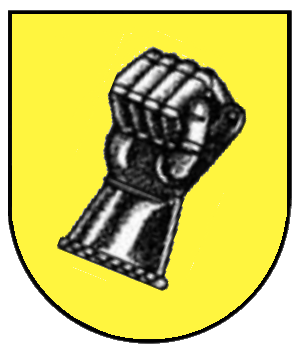 Coat of arms of Berlichingen in Schöntal